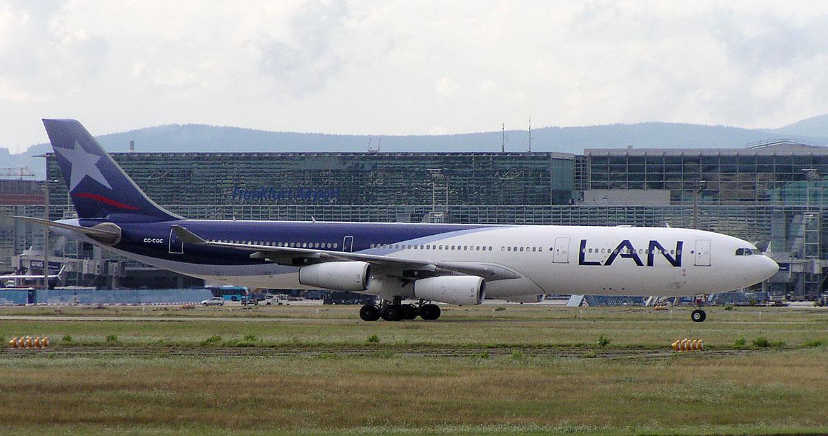 LAN Airlines A340-300X (CC-CQC) in Frankfurt (EDDF)